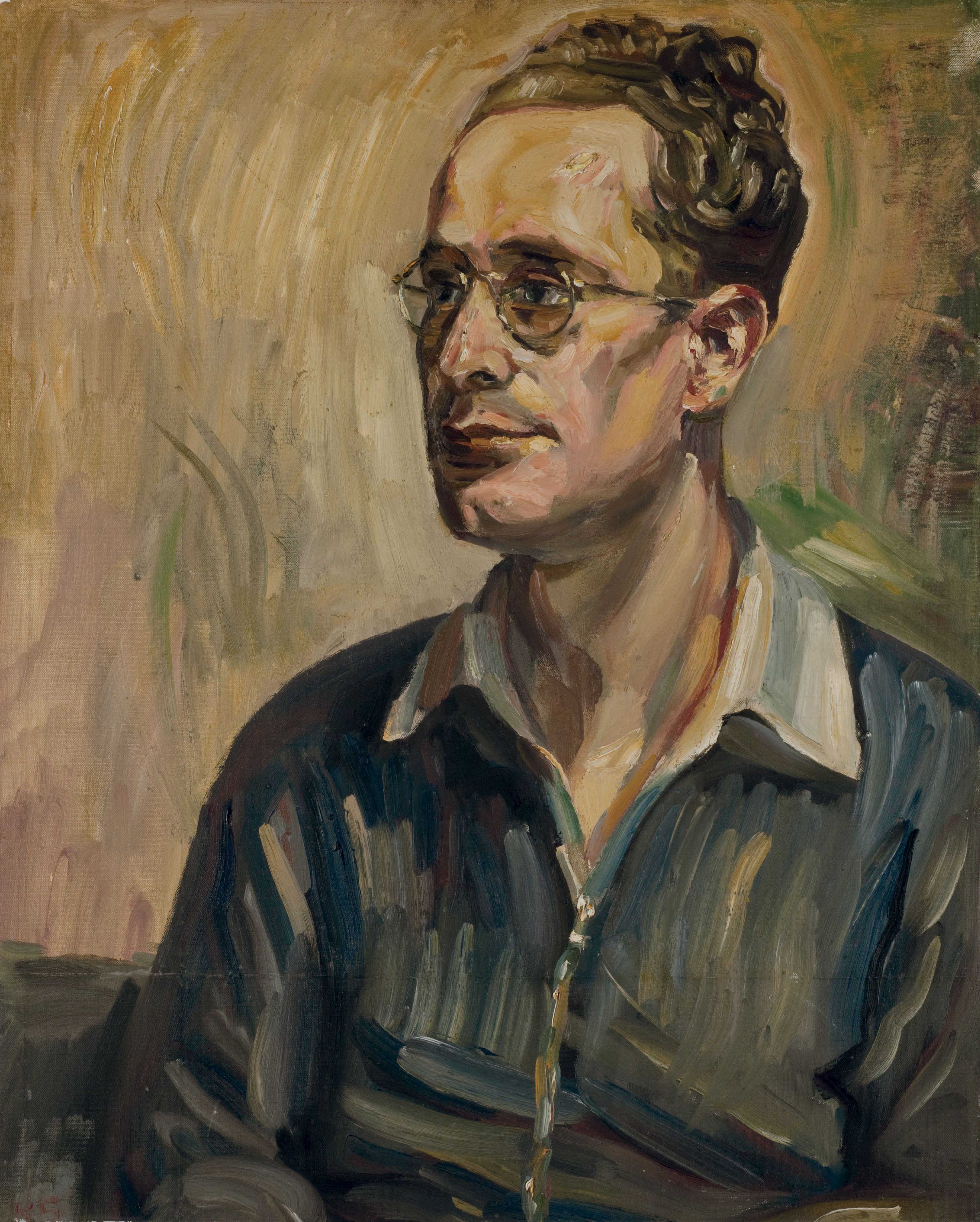 Kurt Schwitters: Portrait Erich Kahn, 72.8 x 58.2 cm. (28 5/8 x 22 7/8 in.)